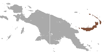 New Britain Naked-backed Fruit Bat (Dobsonia praedatrix) range